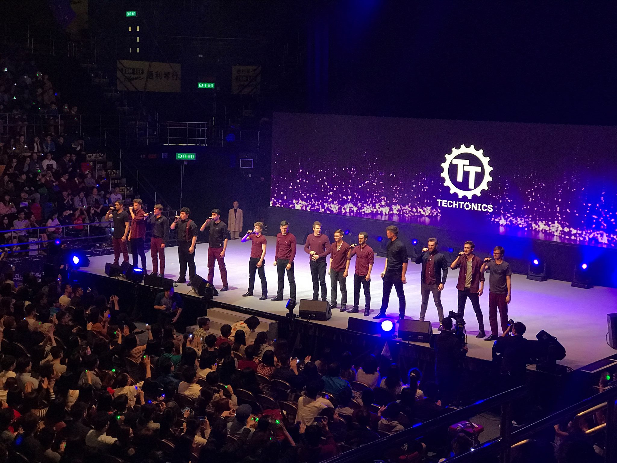 The Techtonics after their final song at the Queen Elizabeth Stadium in Hong Kong.